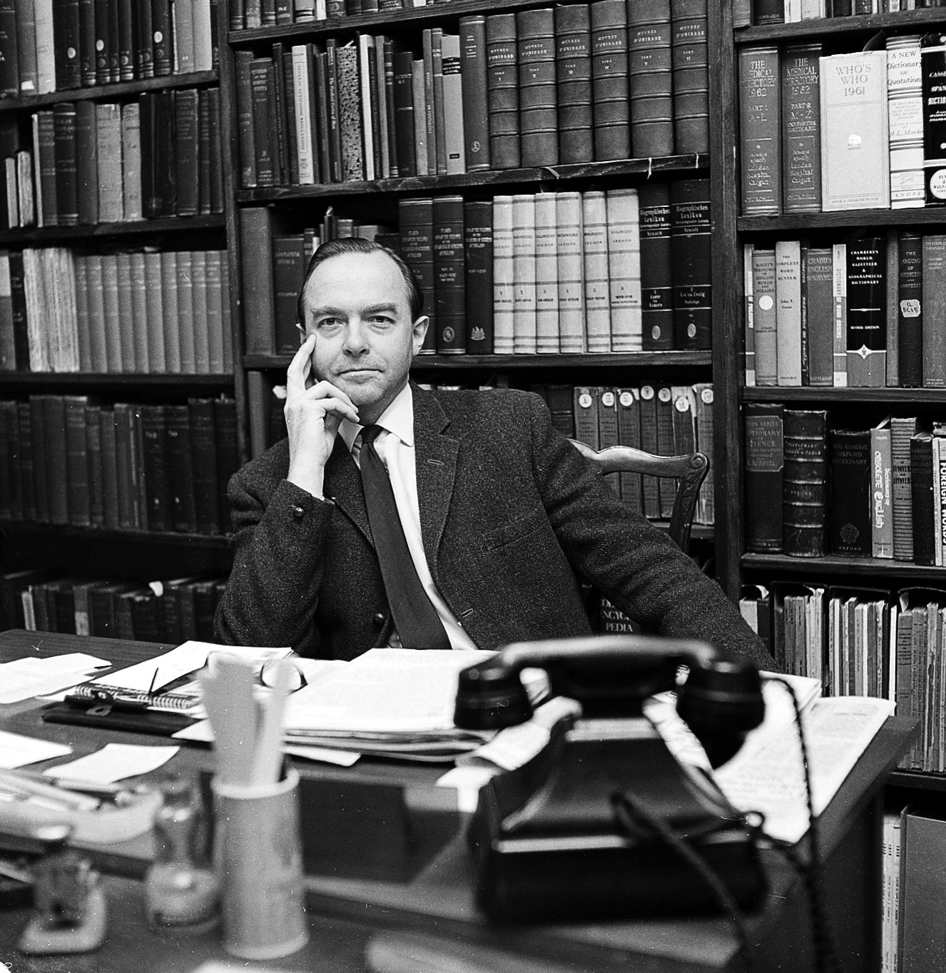 Portrait of Edwin Clarke in the Wellcome Historical and Medical Museum and Library Iconographic Collections Keywords: Wellcome Historical Medical Museum (London); Fletcher